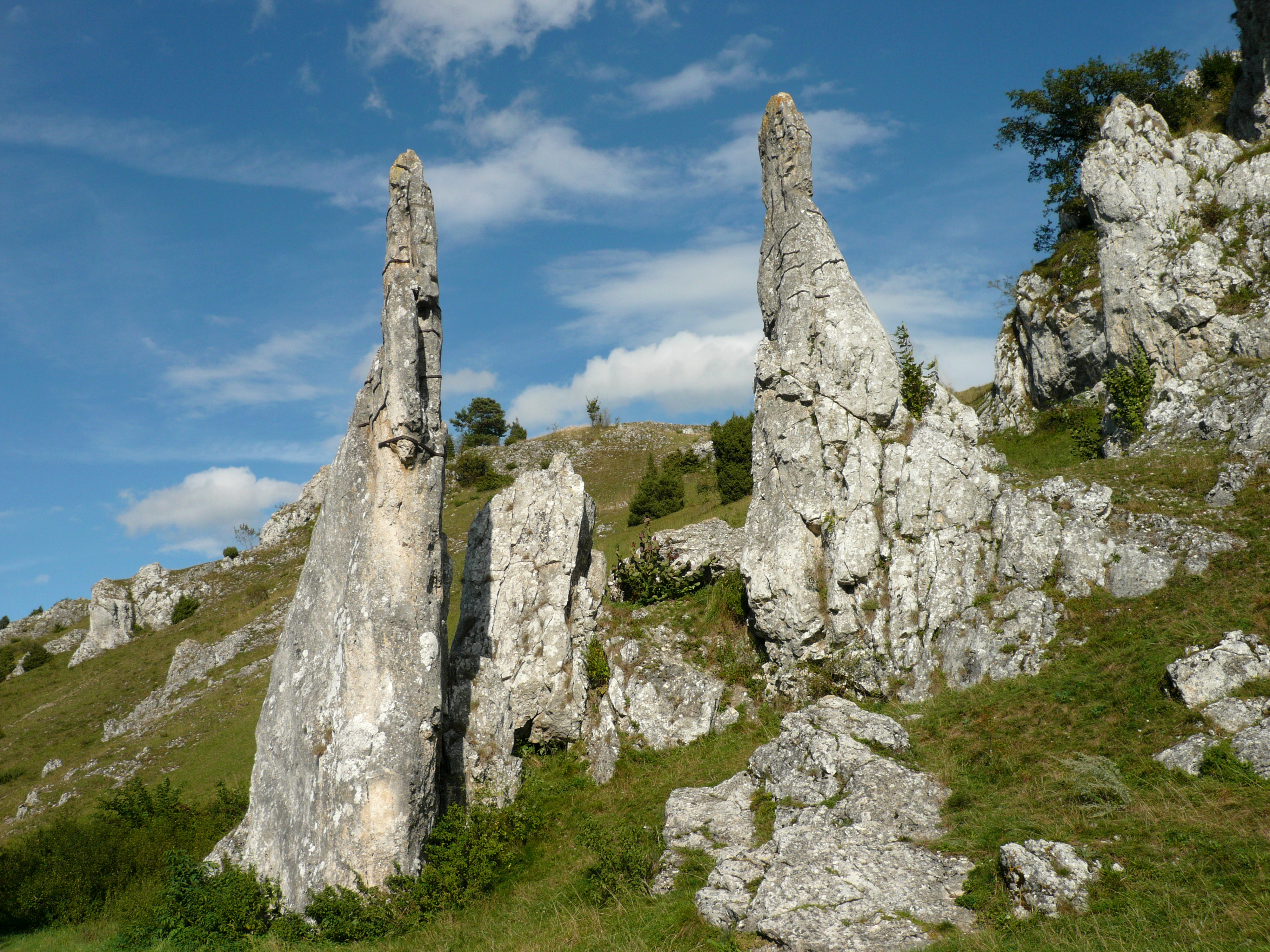 Weathered karst rock formation called "Steinerne Jungfrauen" in Eselsburger Tal, Swabian Alb